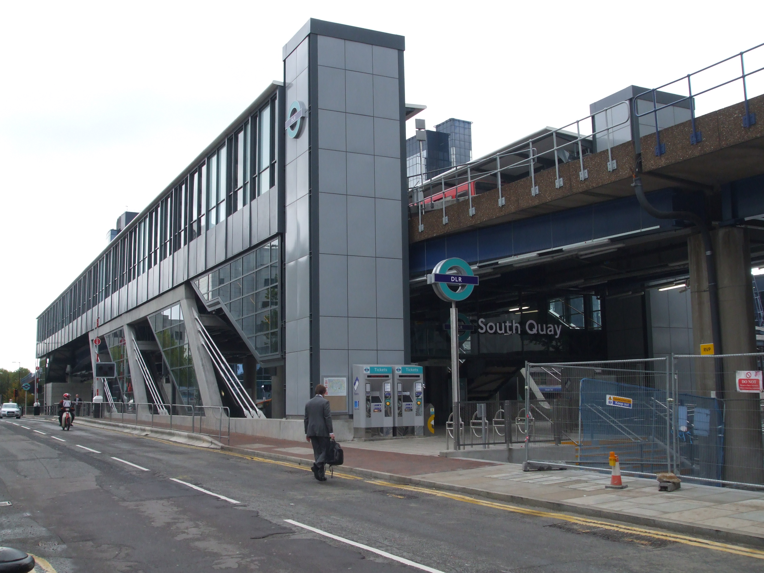 The new South Quay DLR station western entrance, the day after opening.